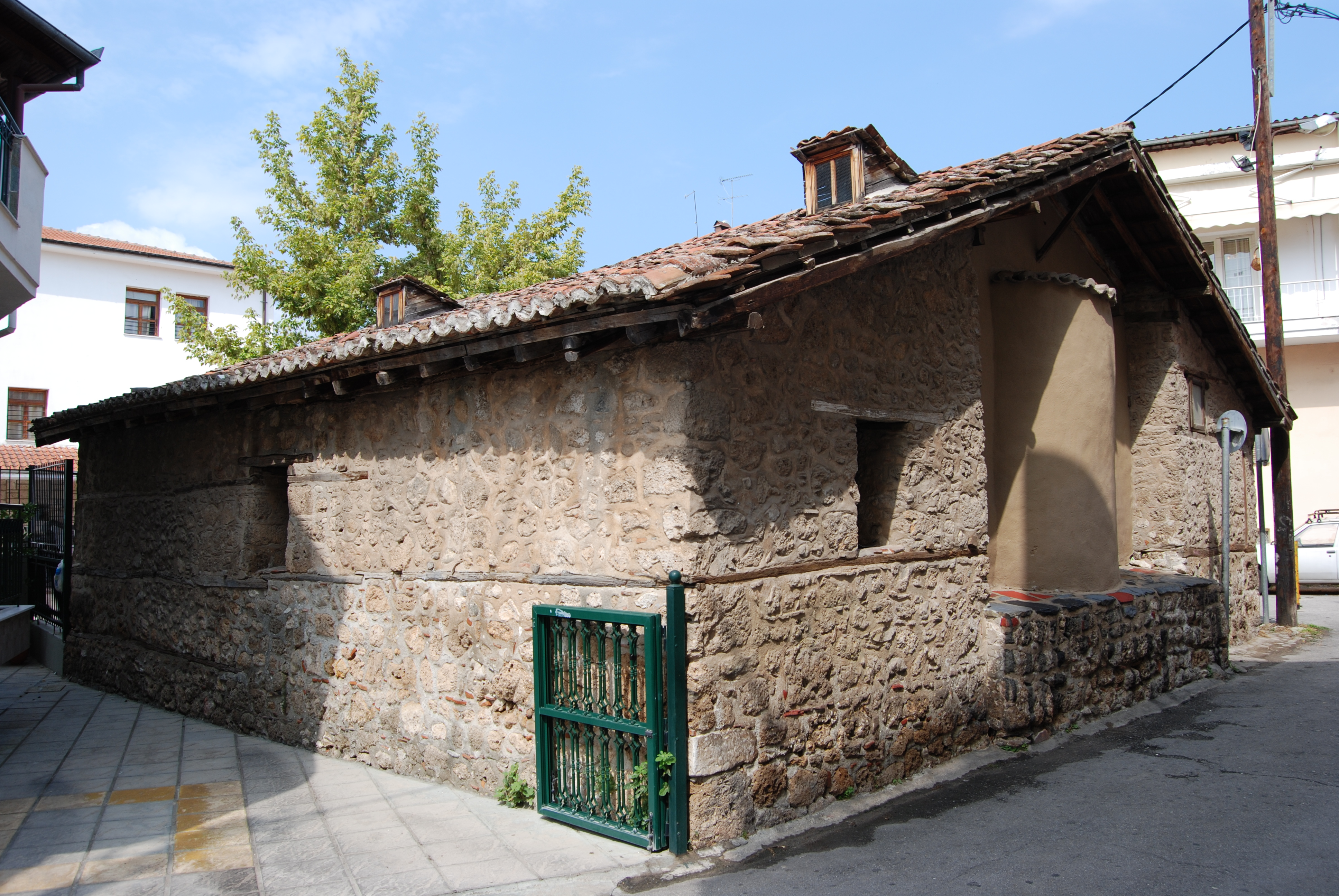 St. George Mikros, Ber